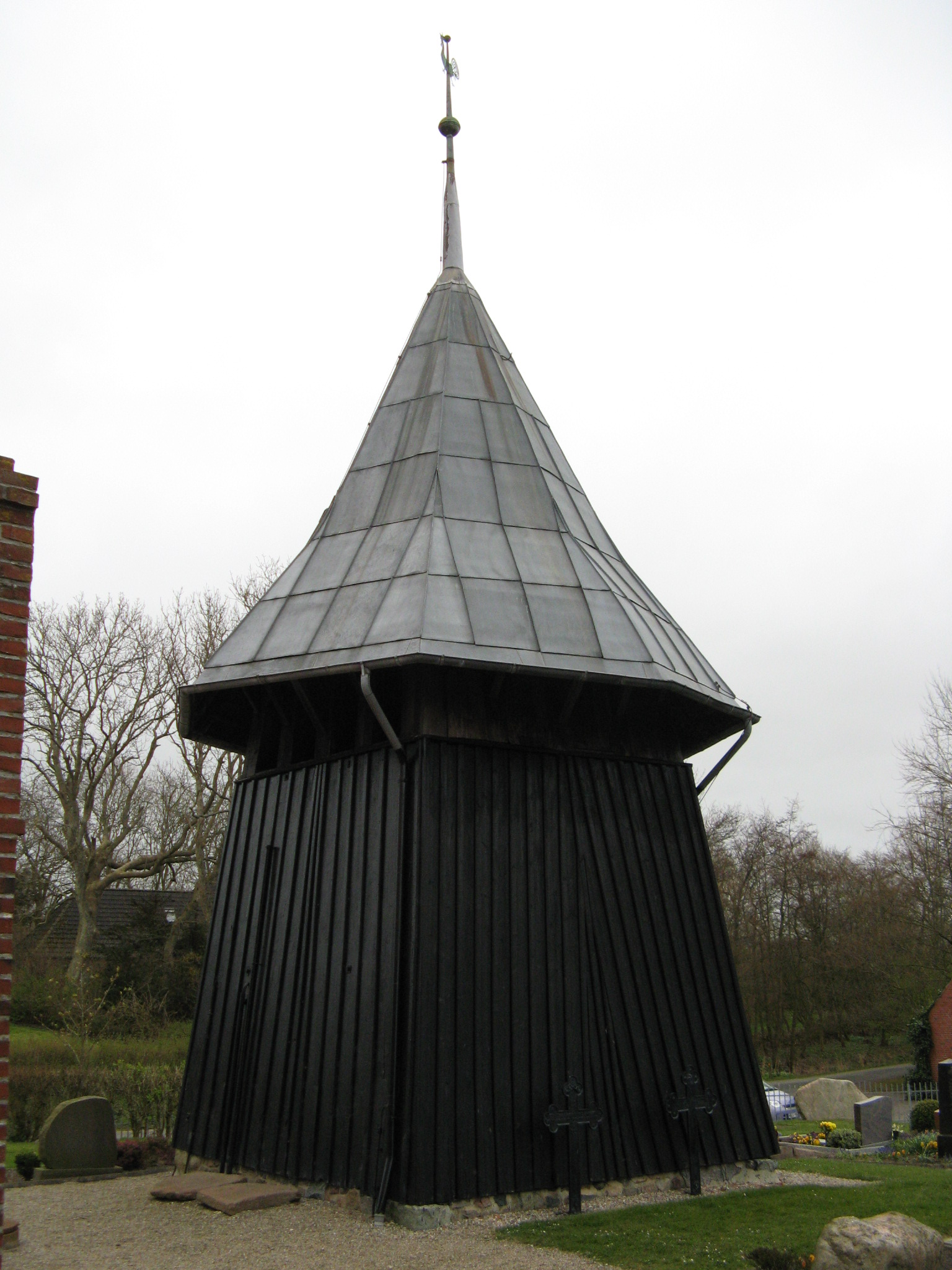 Separ5ate bell tower of the lutheran Church in Fahretoft. Build in 1854. Author: Dirk Ingo Franke